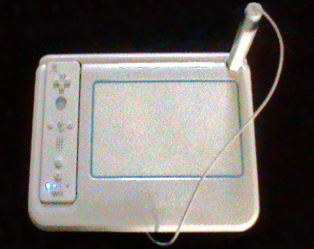 A Picture of the uDraw GameTablet